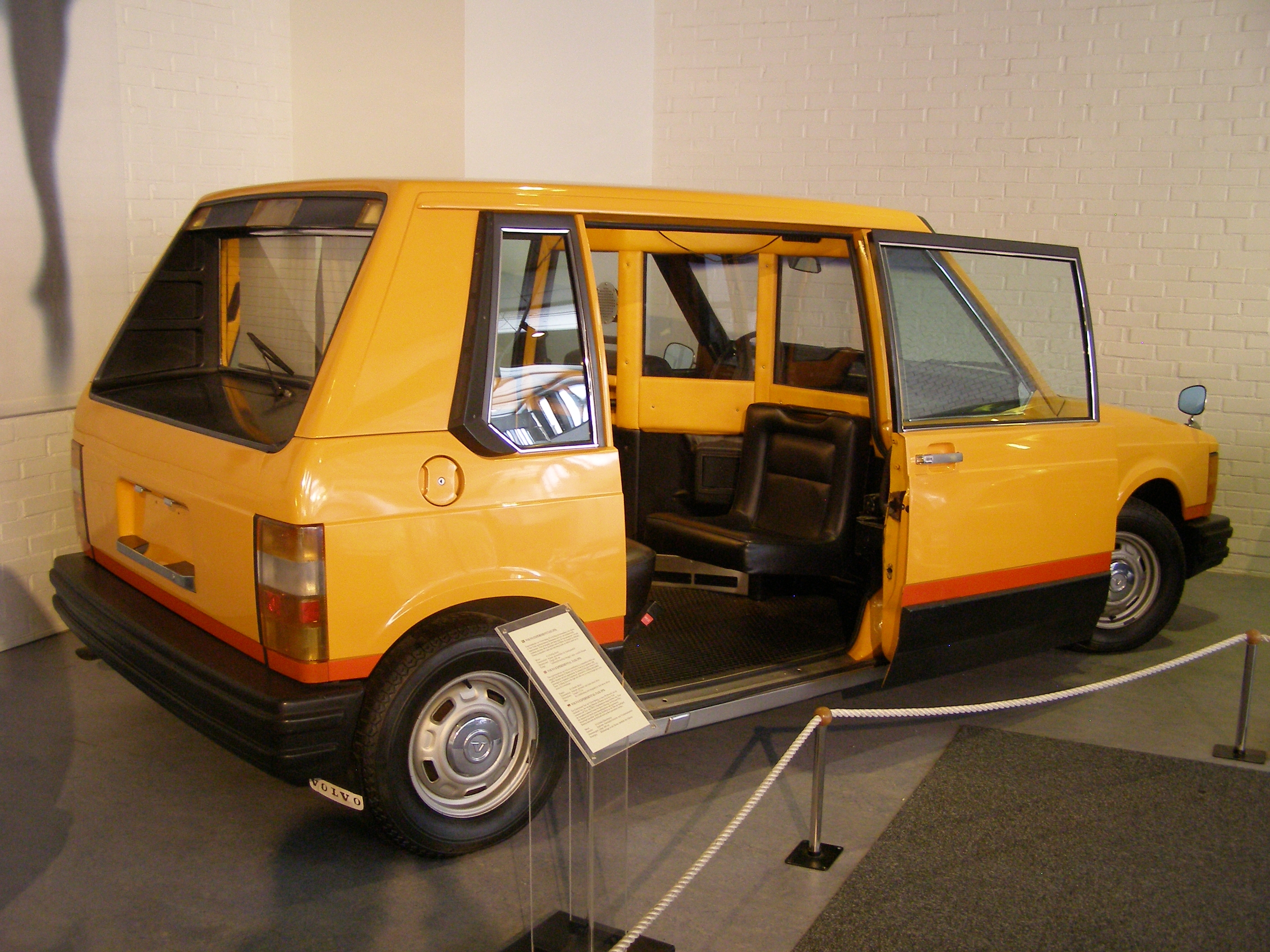 Gothenburg - Volvo Museum - Volvo Experimenttaxi